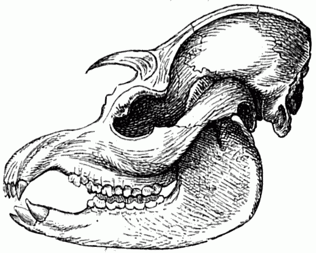 Skull of American Tapir (Tapirus Americanus). (Brockhaus and Efron Encyclopedic Dictionary. Vol. III. P. 257_